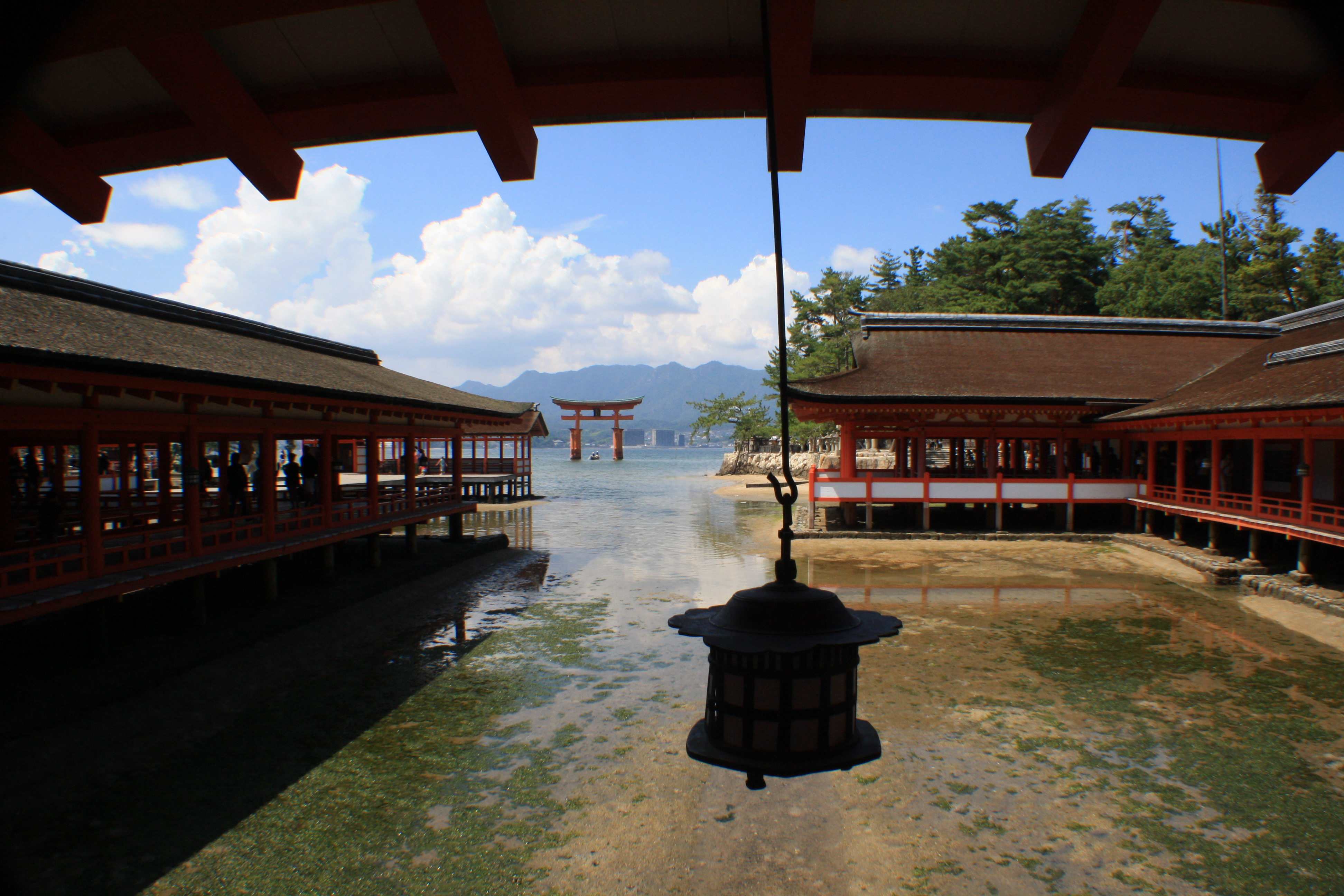 View at Shrine